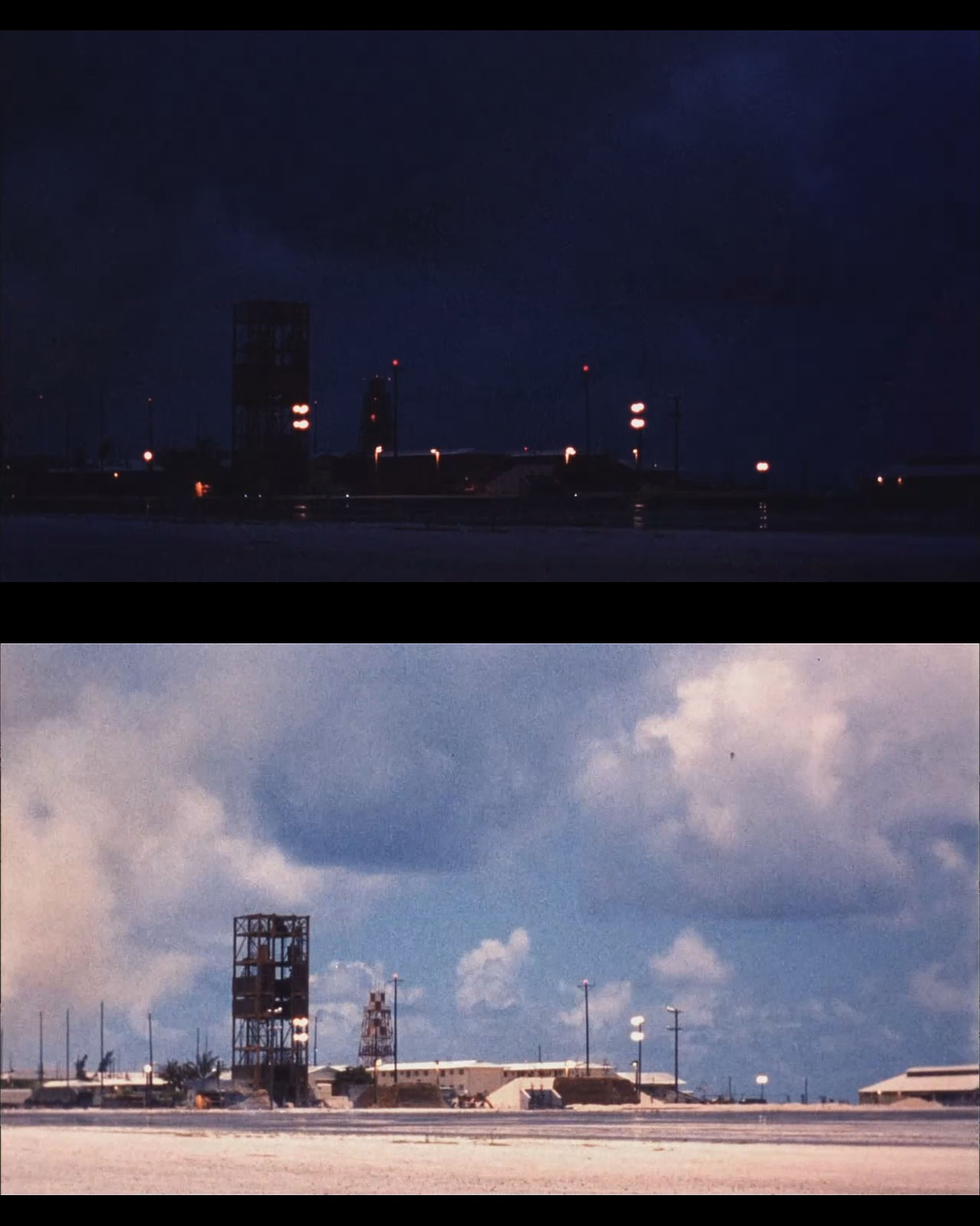 At top, an image of the facility at Johnston Island immediately prior to the detonation of an exoatmospheric nuclear weapon. At bottom, the scene is illuminated solely by the nuclear blast, which burst at 76.8km altitude above the island.